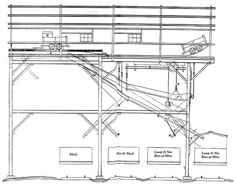 Diagram of a steel frame coal tipple — used for loading coal into railroad cars. On the upper level, a minecart (mine car) is tipped over, and the coal is dumped into screens for sorting the coal pieces by size. The sorted sizes (labeled Slack, Nut, Lump and Run-of-Mine) fall through chutes to the appropriate railroad hopper car. The height of each chute is adjustable to accommodate hopper cars of various heights. Credits Composite drawing created from original two-page publication; labels retyped for clarity.